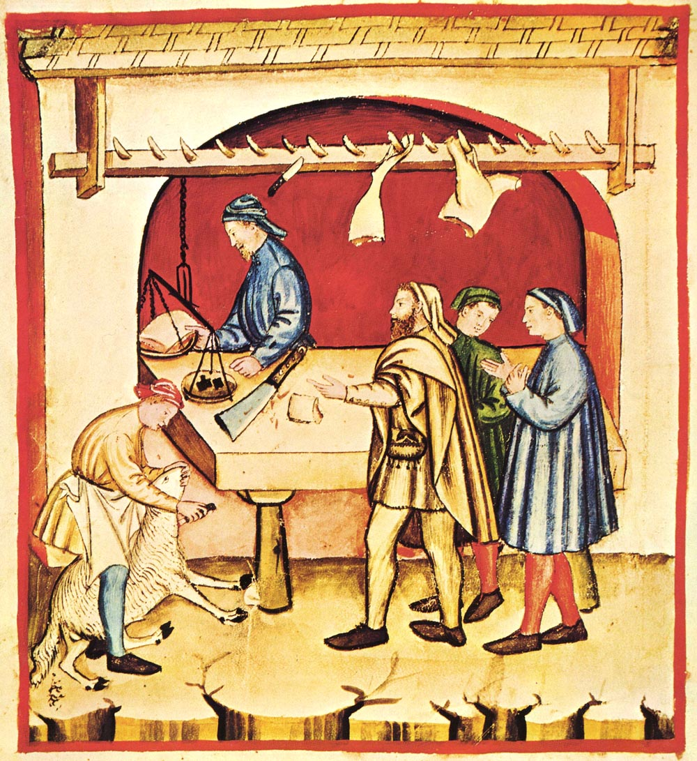 This picture is showing a 14th century butcher doing his trade in a traditional manner